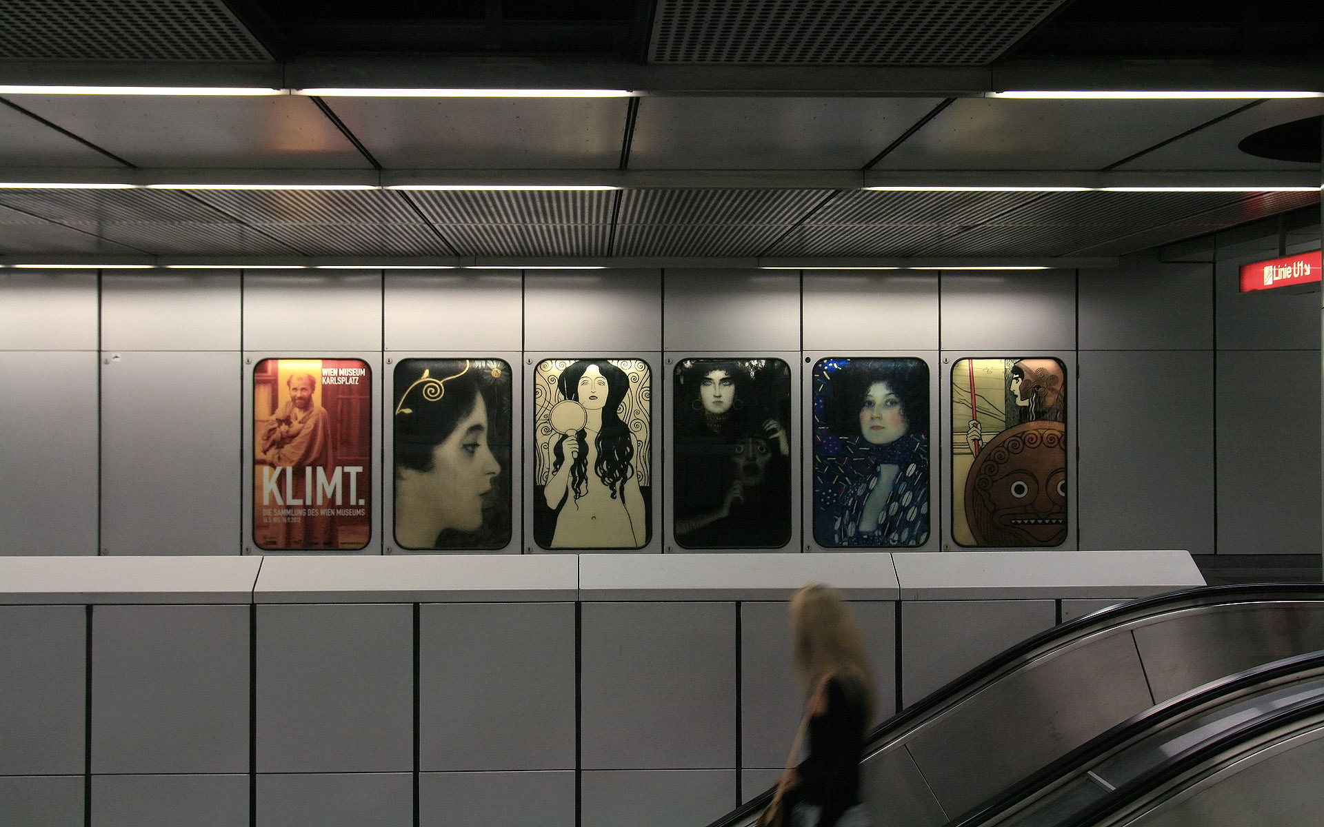 Posters for an exhibition of Gustav Klimt at the Vienna Museum (Stephansplatz (Vienna U-Bahn)).